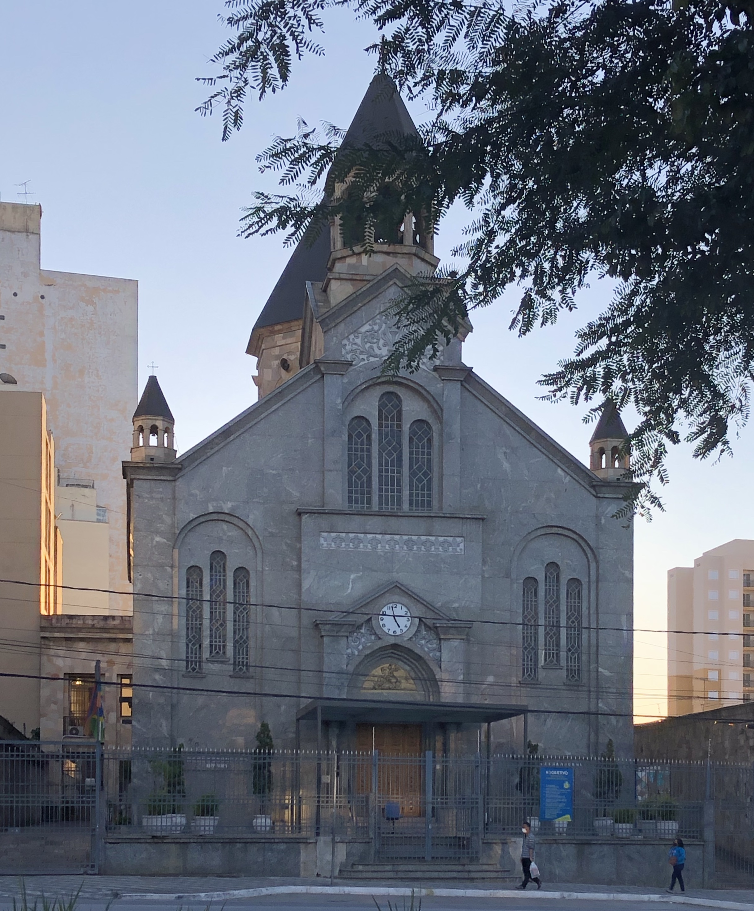 A Igreja Apostólica Armênia de São Paulo, Brasil.